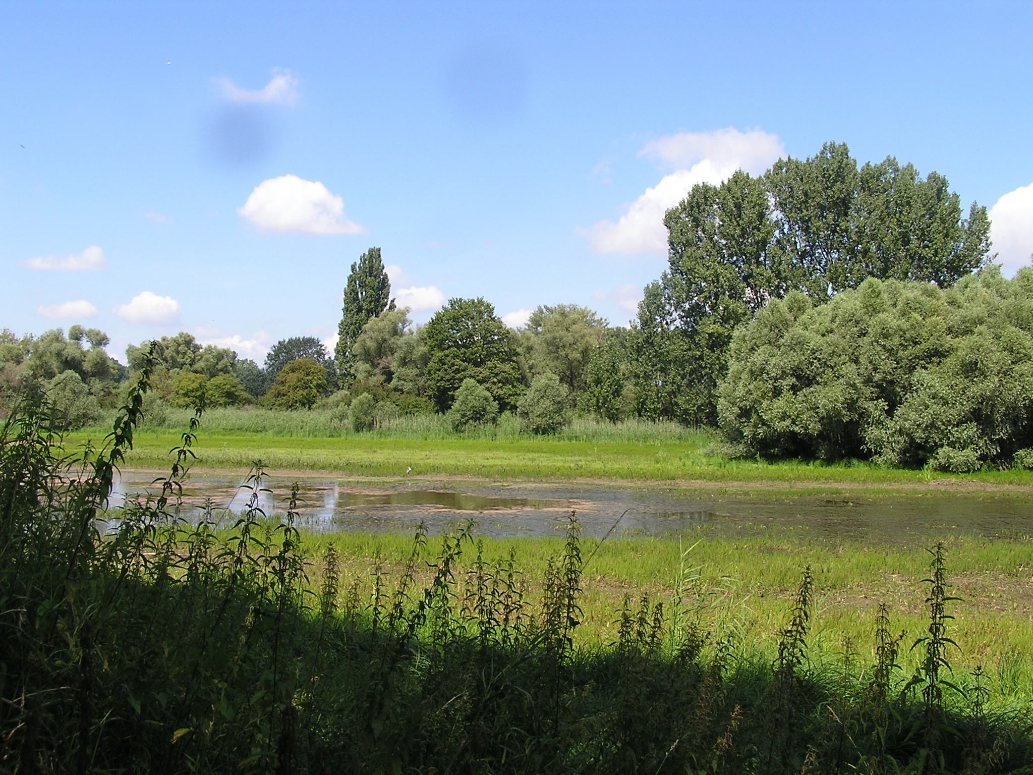 Nature reserve Kuehkopf-Knoblochsaue. The photo shows one of the bayous of the Rhine. It is marshy, but flood fills the area widely with water.